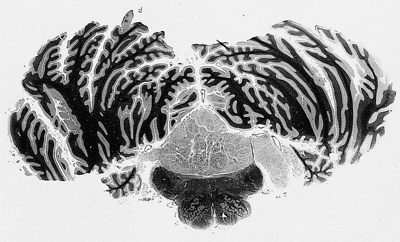 CNS: SUBEPENDYMOMA Subependymomas of the fourth ventricle arise from the floor or roof of the ventricle to obstruct cerebrospinal fluid flow and to compress the underlying medulla. Such tumors may extend into the cerebellopontine angle via the foramen of Luschka, as is seen at the right of the illustration.